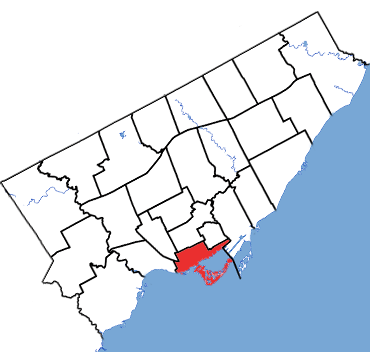 Spadina-Fort York in relation to the other Toronto ridings (2015 boundaries)